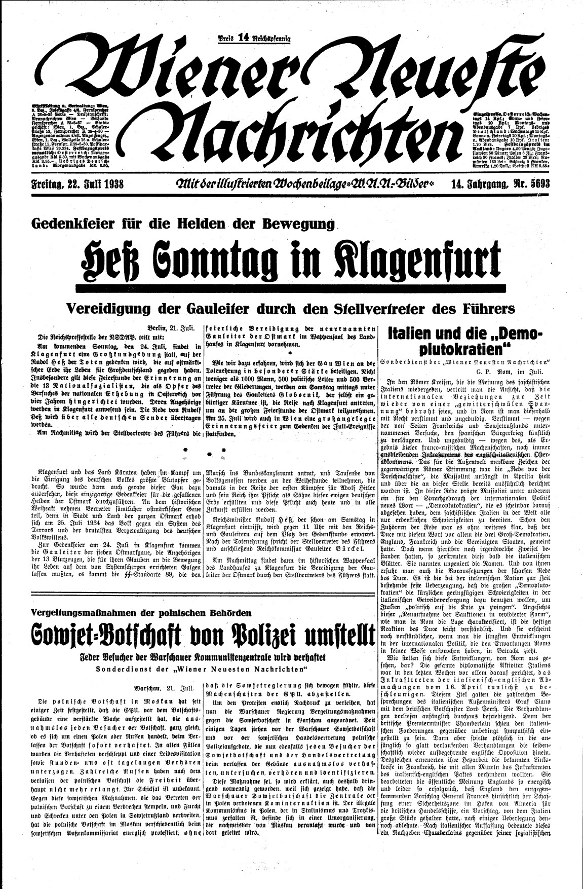 Frontpage of daily newspaper Wiener Neueste Nachrichten from 1938-07-22